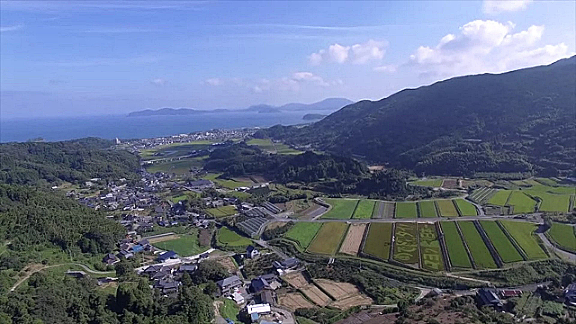 Japan: tambo art in Itoshima's Nijōyoshii area (Fukuoka prefecture).